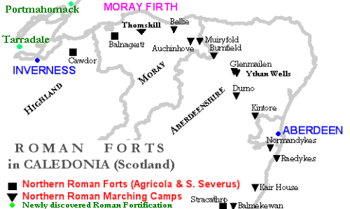 I have added - to my first map (File:RomanFortsNorthernScotland.gif) - in green the newly discovered Roman Fortifications (Tarradale & Portmahomack) north of Inverness. Portmahomack is in Ross-shire. Galacantray is in Nairnshire.